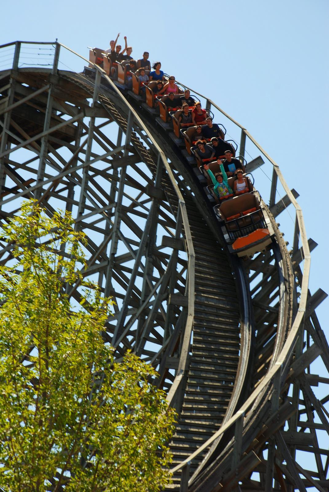 The first drop of the Roar wooden roller coaster in Six Flags Discovery Kingdom. Roar was build by Great Coasters International and opened in 1999.